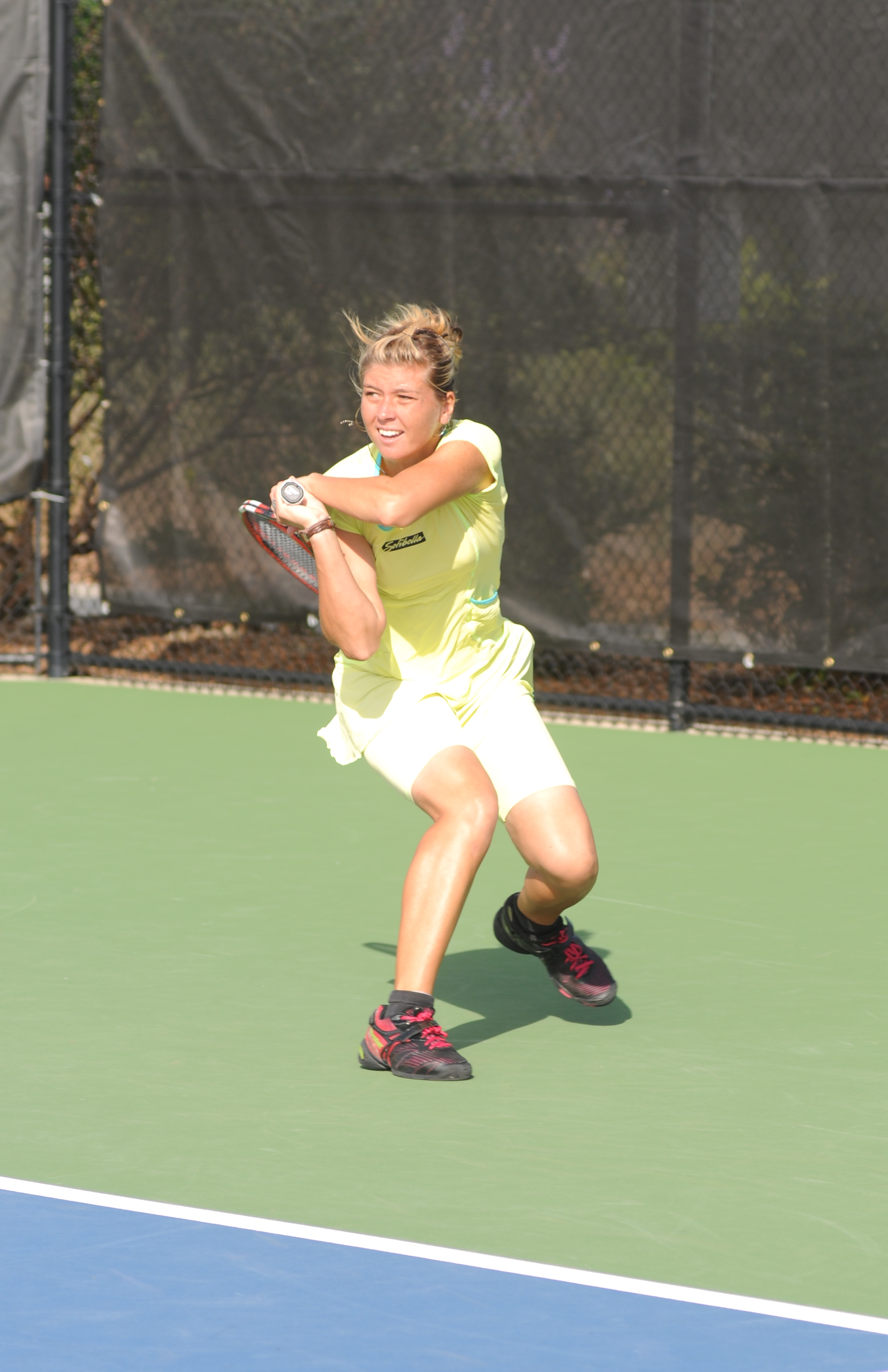 Jan Abaza at the Florence Open